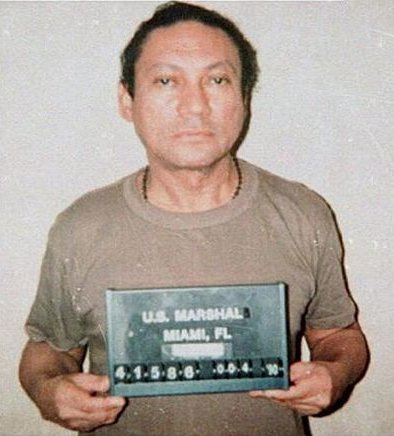 Mug shot of Manuel Noriega.